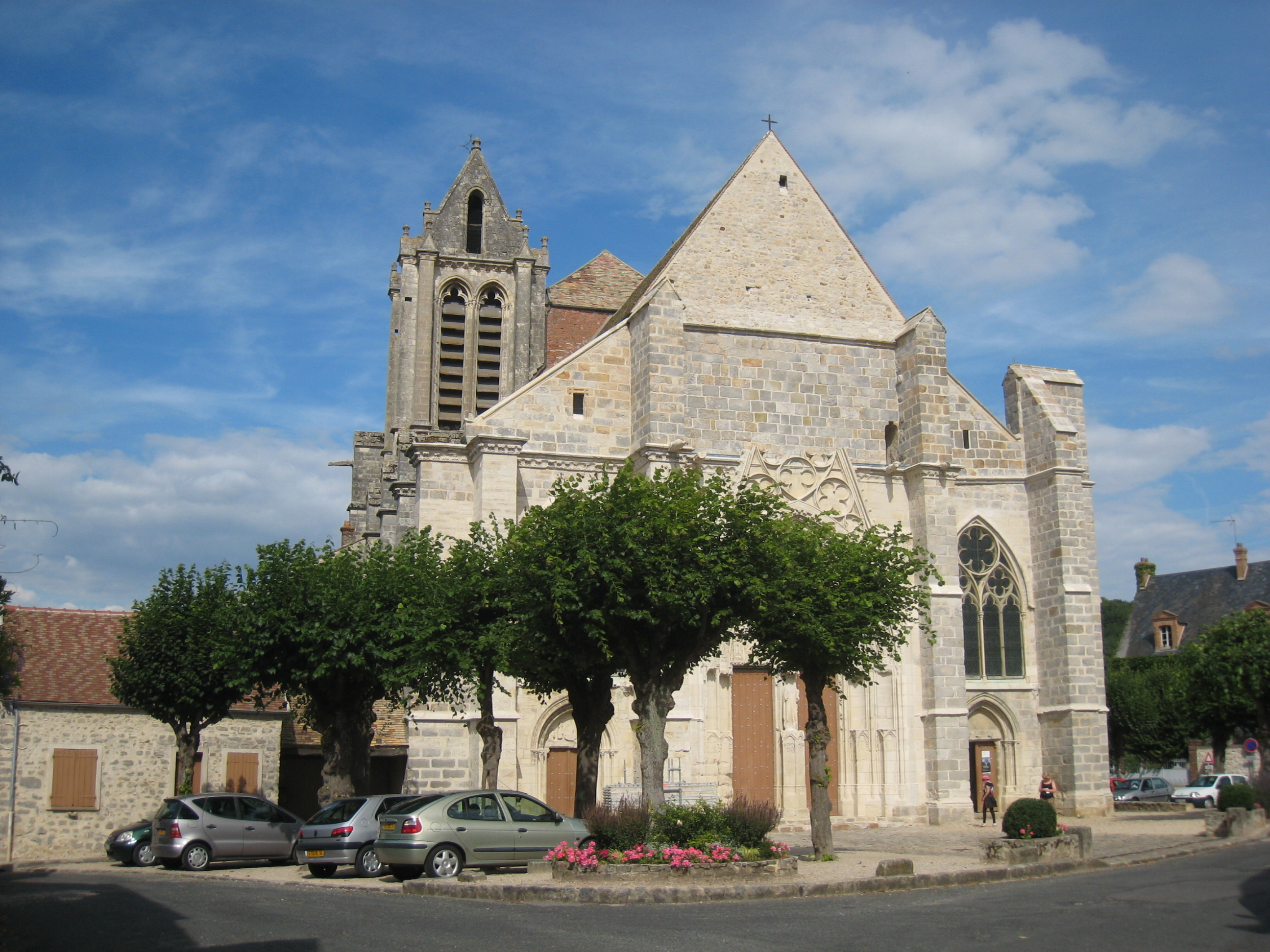 Gothic church of Saint-Sulpice-de-Favières (Essonne, France)